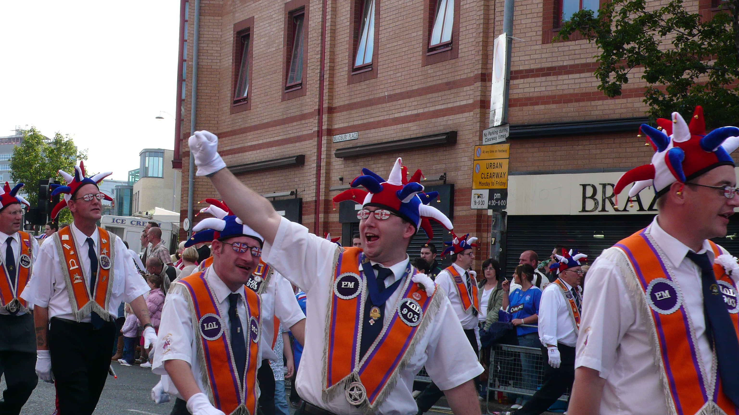 12 July parade in Belfast, Northern Ireland